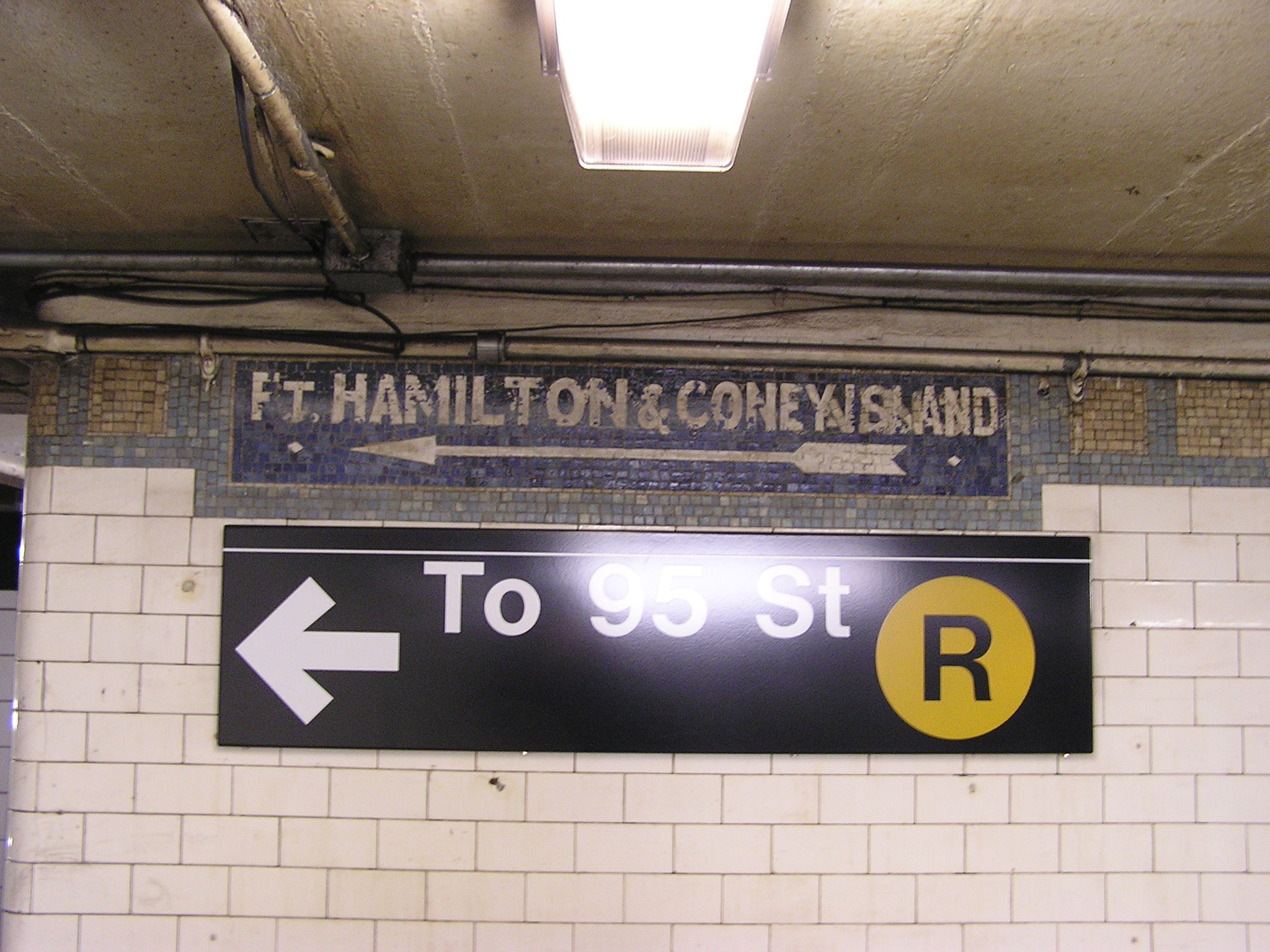 Bay Ridge–95th Street (BMT Fourth Avenue Line) Fort Hamilton sign and directional mosaic. Taken at 53rd Street (BMT Fourth Avenue Line)